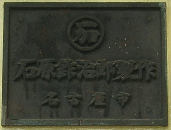 Heiwa bridge's history plate. The bridge was built in 1936. Loc: Heiwa-bashi (Heiwa bridge), Minato-ku, Nagoya city, Aichi Prefecture, Japan. 平和橋の橋歴板（昭和11年） 撮影場所 愛知県名古屋市港区